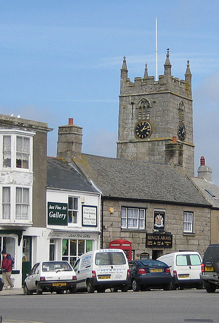 Kings Arms pub, St Just